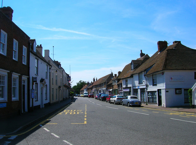 High Street, Lydd. The first record of a town being her is the 9th century when the Saxons called it Hlydda meaning shore. Built on a shingle bar and often isolated by marshes and water the town has a feel of a frontier town in the American west rather than genteel Kent. Naturally, the smuggling trade found a welcome home here from the 14th century onwards when the Owlers (name derived from their making noises like an owl at night to communicate with each other) smuggled wool to France. During the 18th and 19th century it was often said that the entire population was involved in one form or another often in league with the big gangs from the Wealden towns. The George Hotel to the left with the flagpoles attached was the scene of a big shoot out in 1747 when arrested smugglers detained by a small unit of soldiers were attacked by 500 armed thugs. This view was taken from the southern exit of the churchyard.